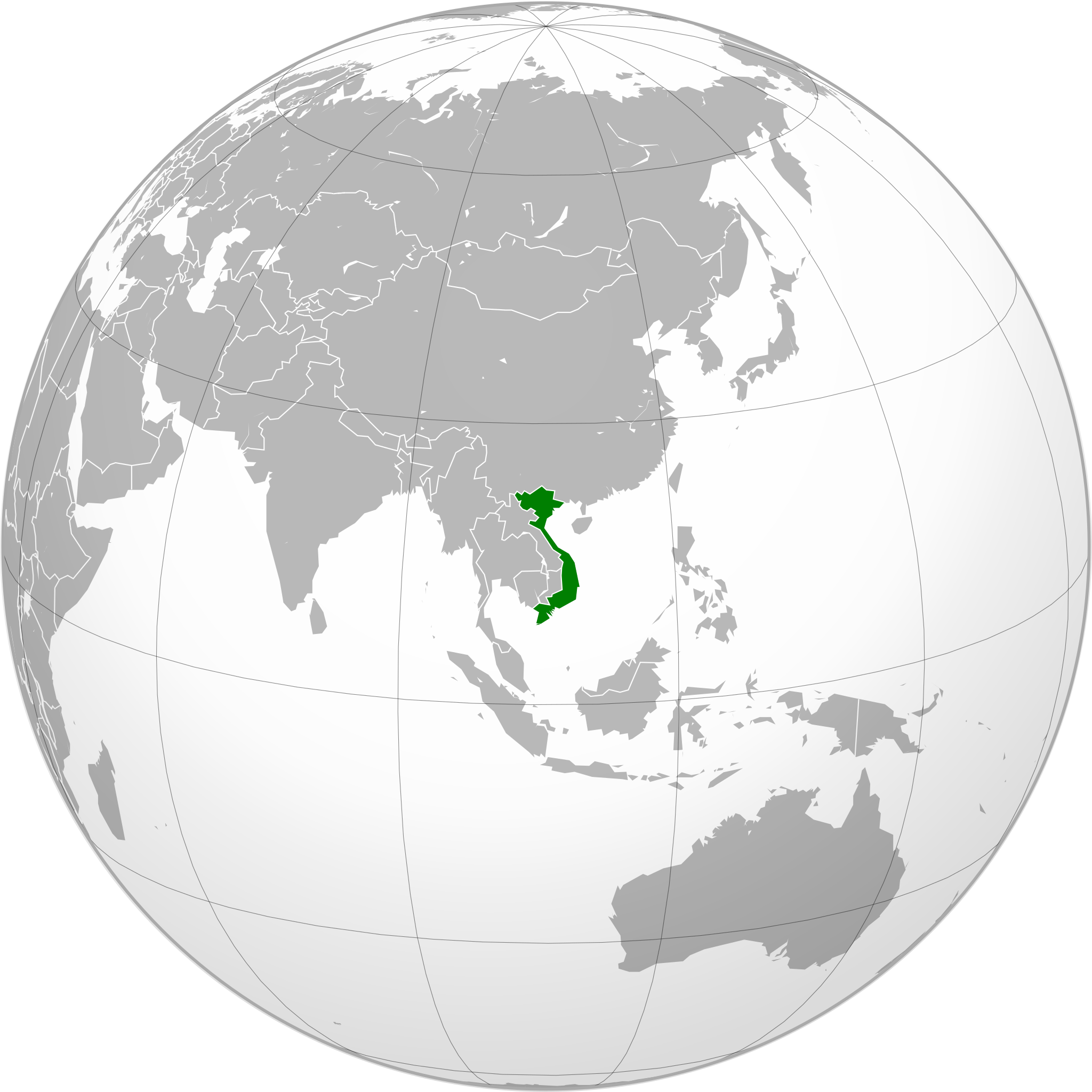 Vietnam (orthographic projection)